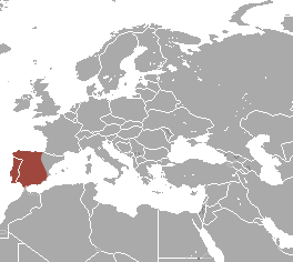 Spanish Mole (Talpa occidentalis) range